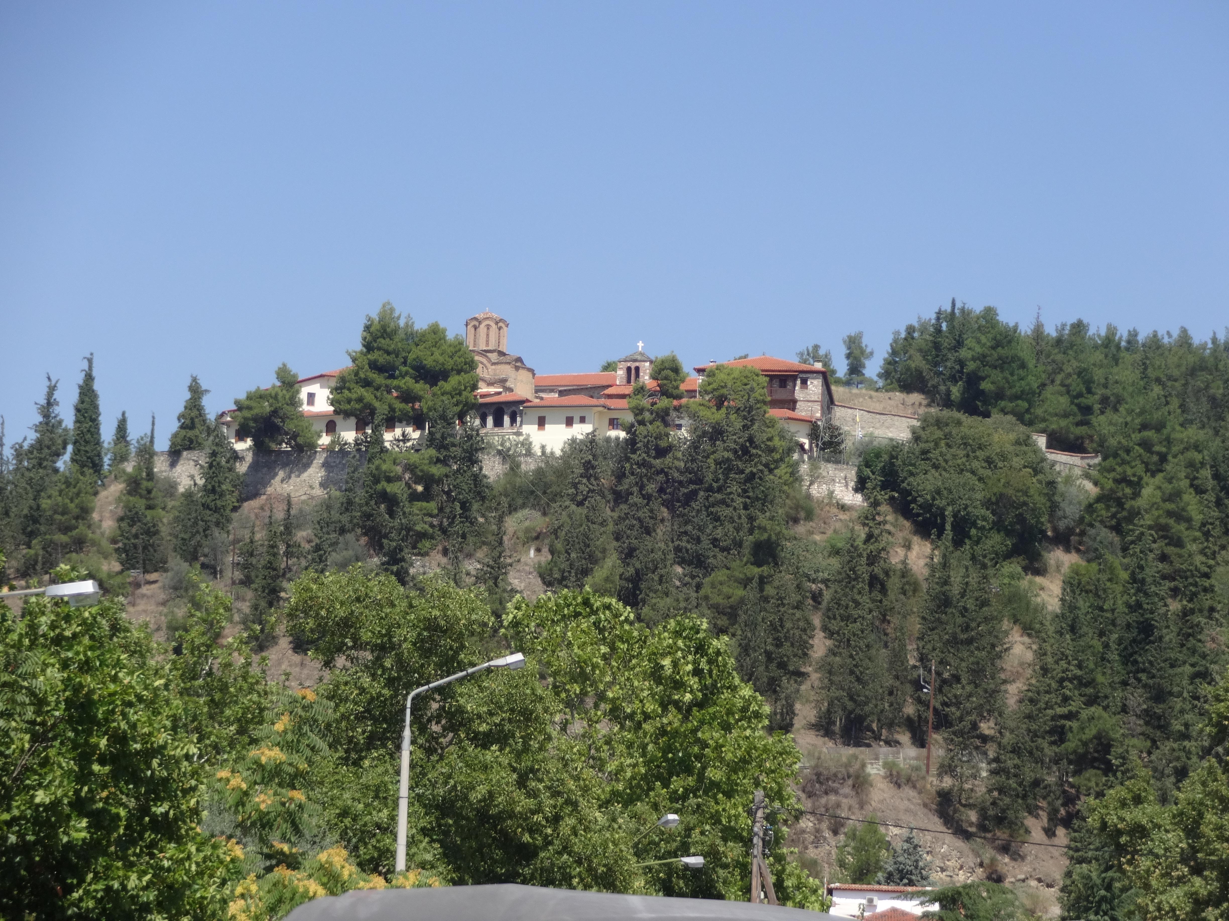 Elassona, Greece. Monastery of Madonna Olympiotissa